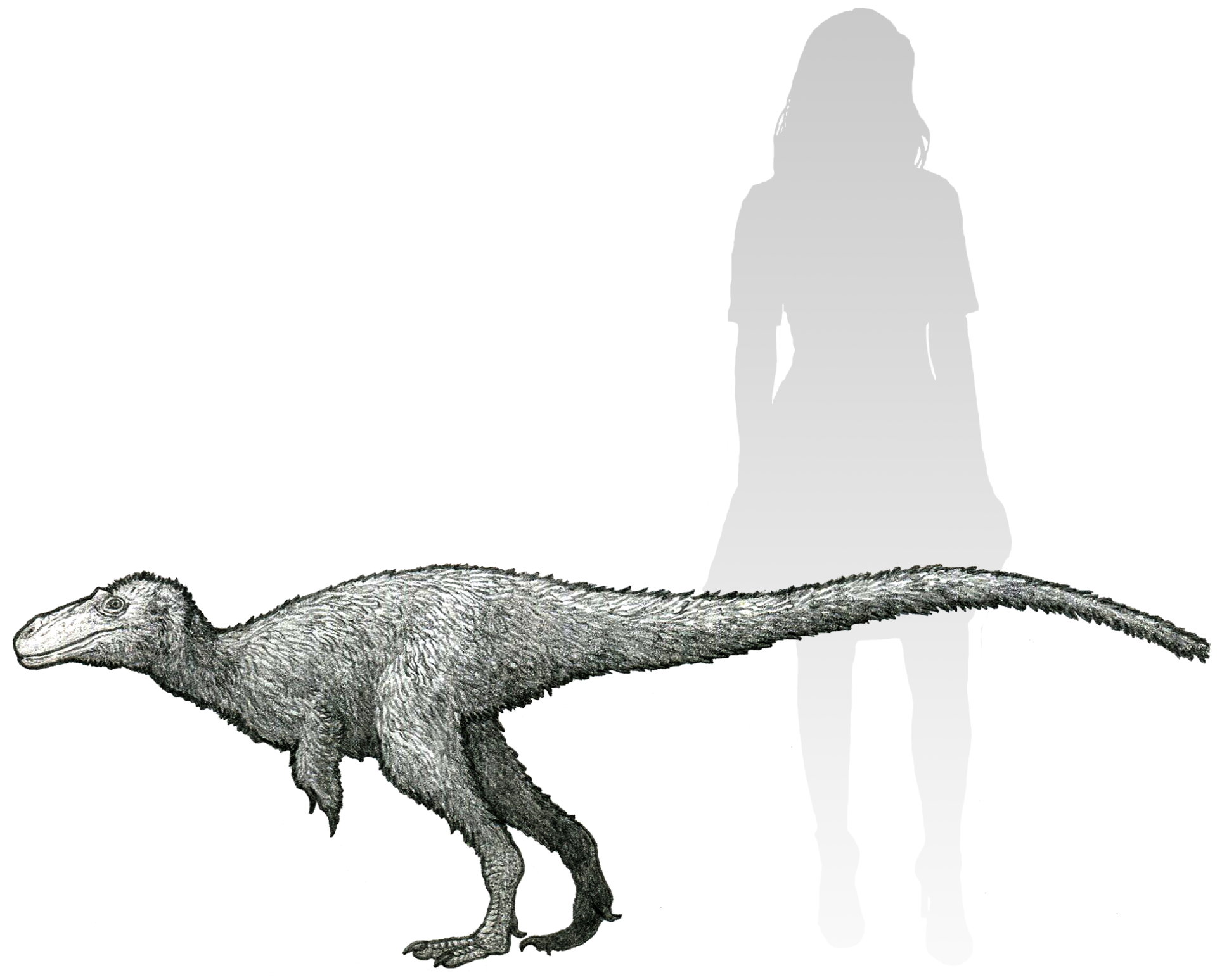 Life reconstruction of Suskityrannus by Tom Parker.